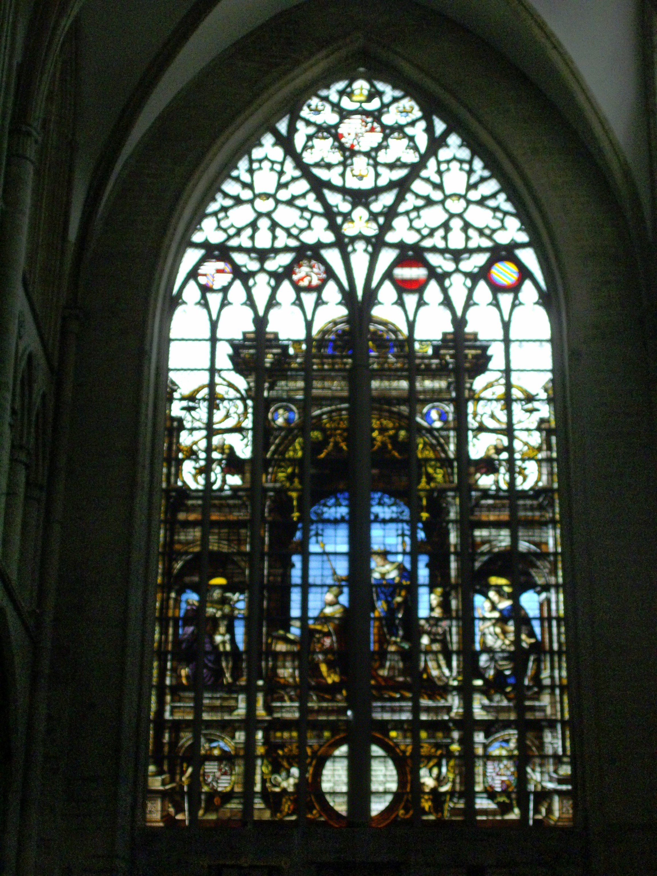 The St. Michael and St. Gudula Cathedral in Brussels (Belgium)